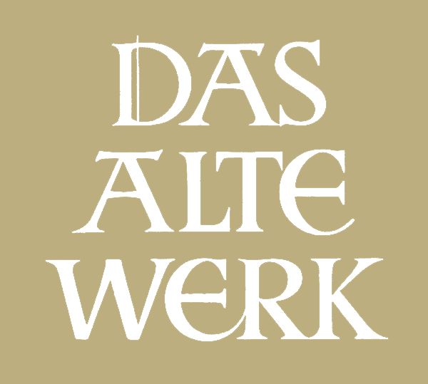 logo of the record label Das Alte Werk